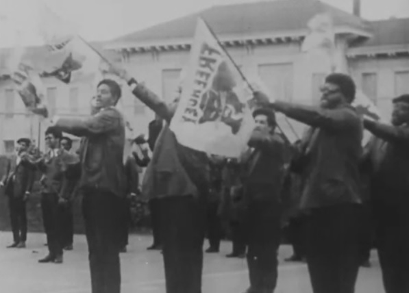 A student protest demonstration at Alameda County Courthouse, Oakland, California.